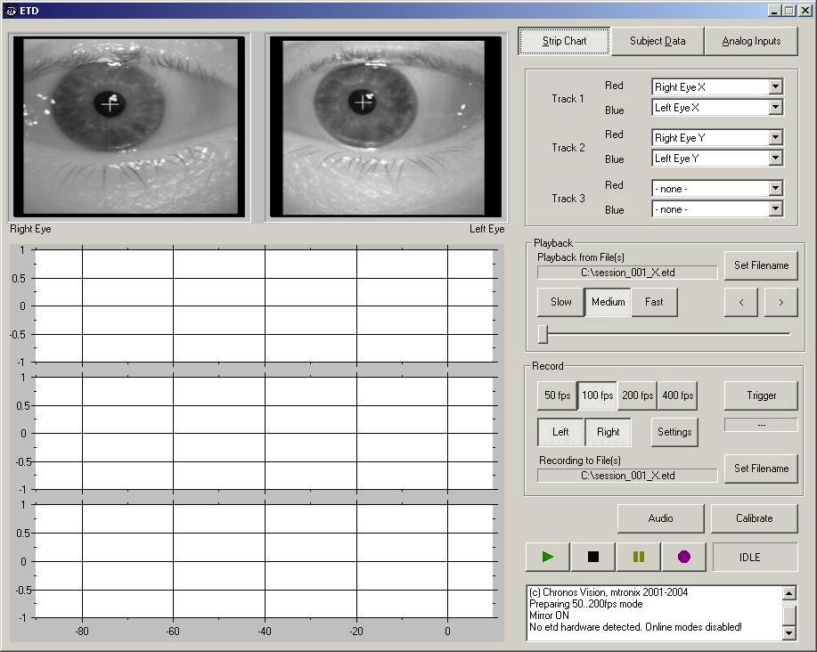 GUI of the Eye Tracking Device Software